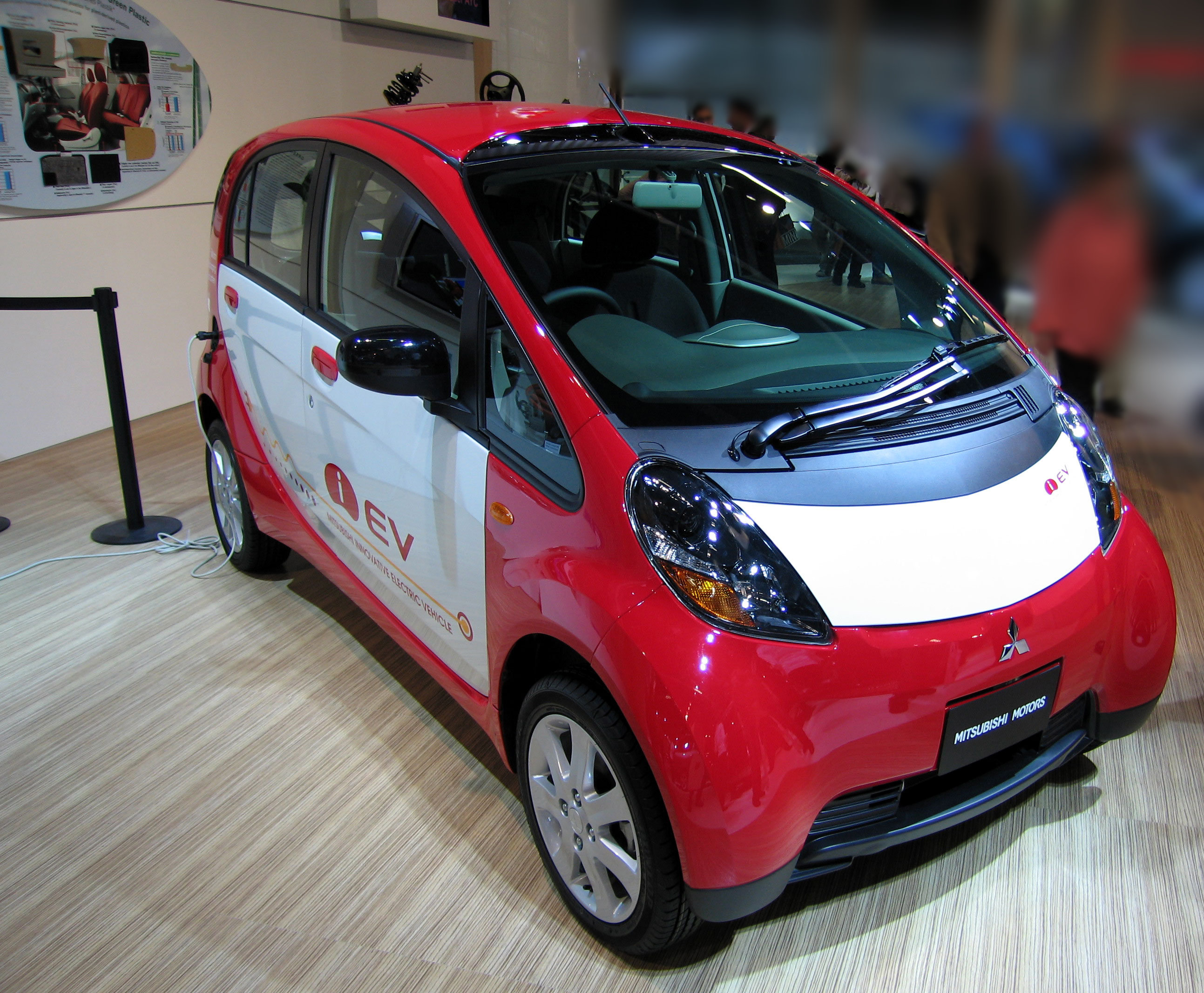 Mitsubishi i with MiEV-Technology at the IAA 2007 own work LSDSL 10:23, 23 September 2007 (UTC) 2007-Sept.-19